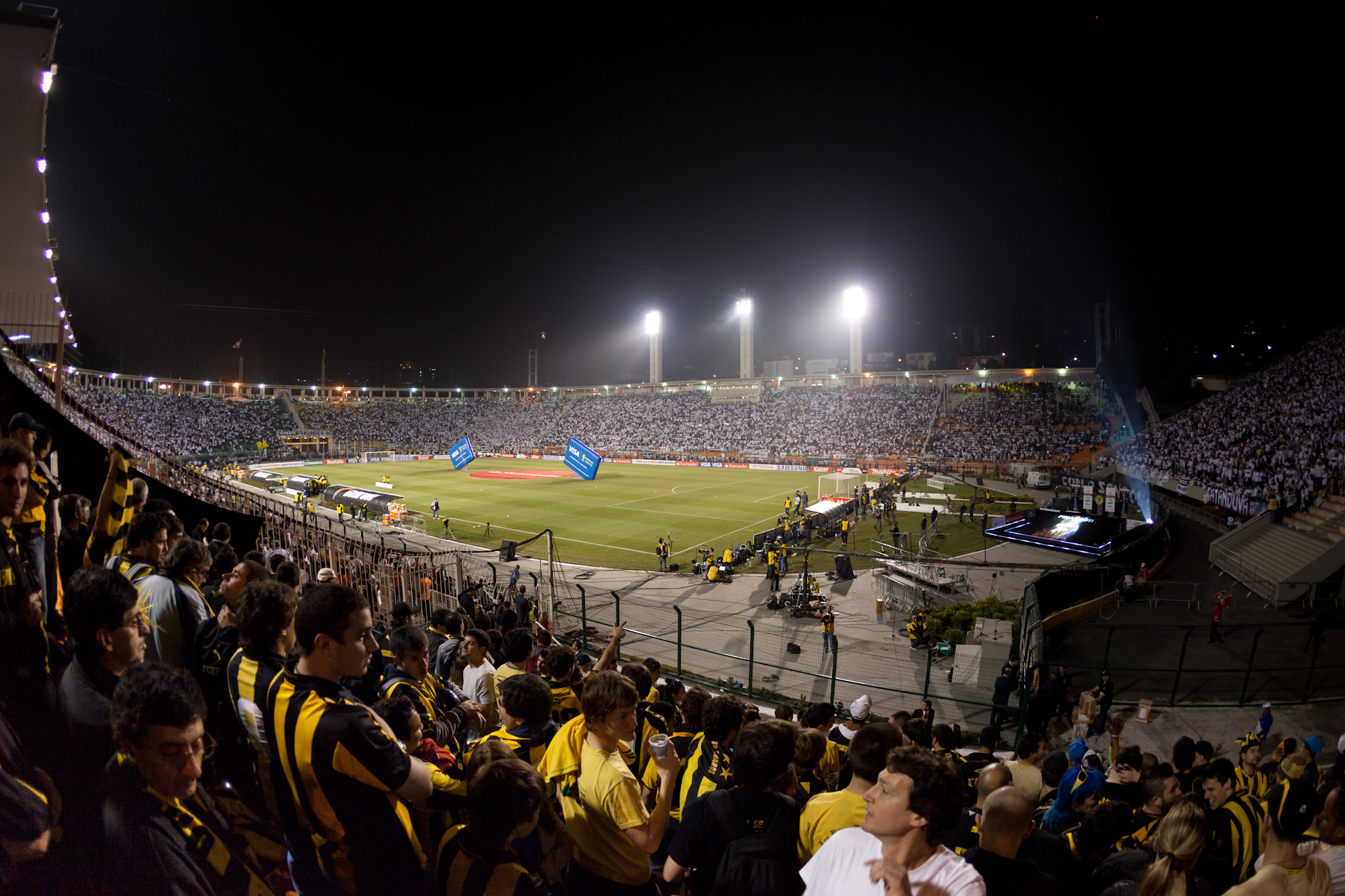 Pacaembu stadium before the last game of the Copa Libertadores 2011.